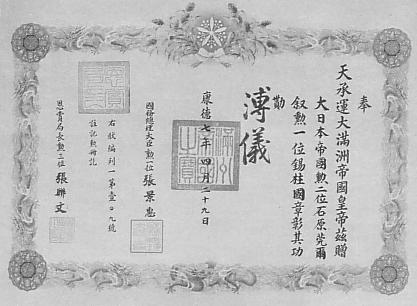 Manchukuo Decoration Diploma for Kanji Ishiwara